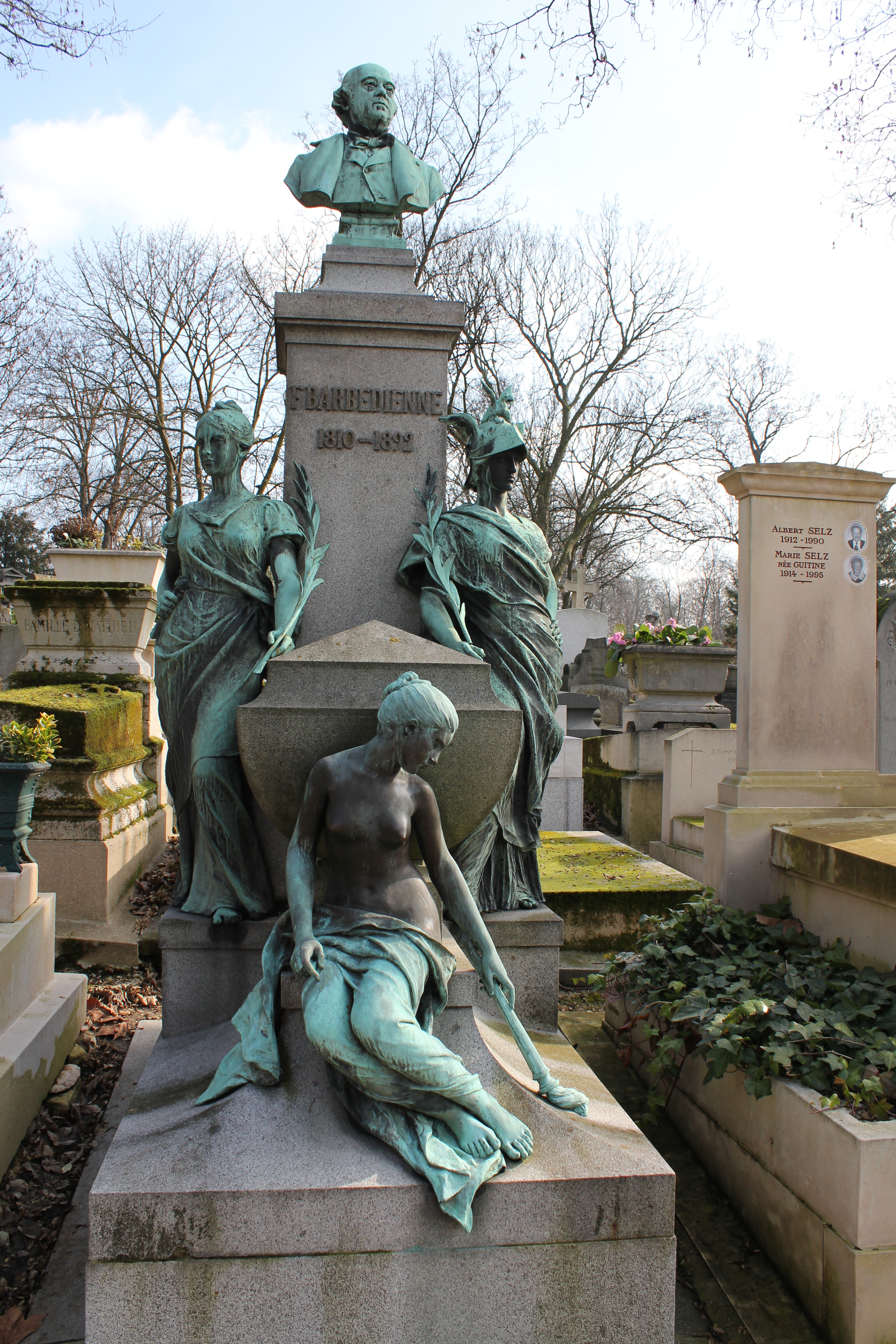 Ferdinand Barbedienne's tombstone in Père Lachaise Cemetery, in Paris.